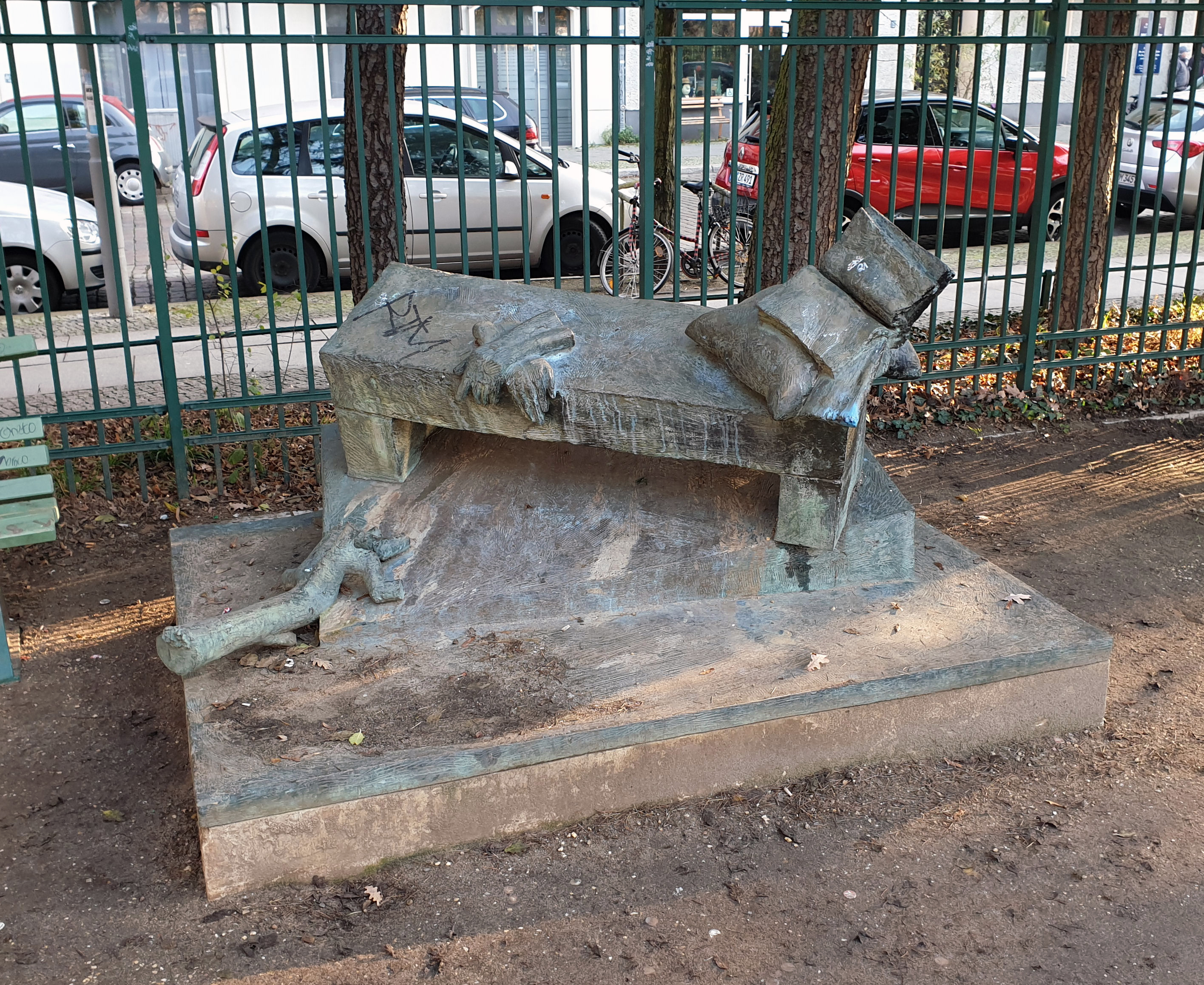 Sculpture, "Bettinas Bank" by Michael Klein, 1998, Arnimplatz, Berlin-Prenzlauer Berg, Germany